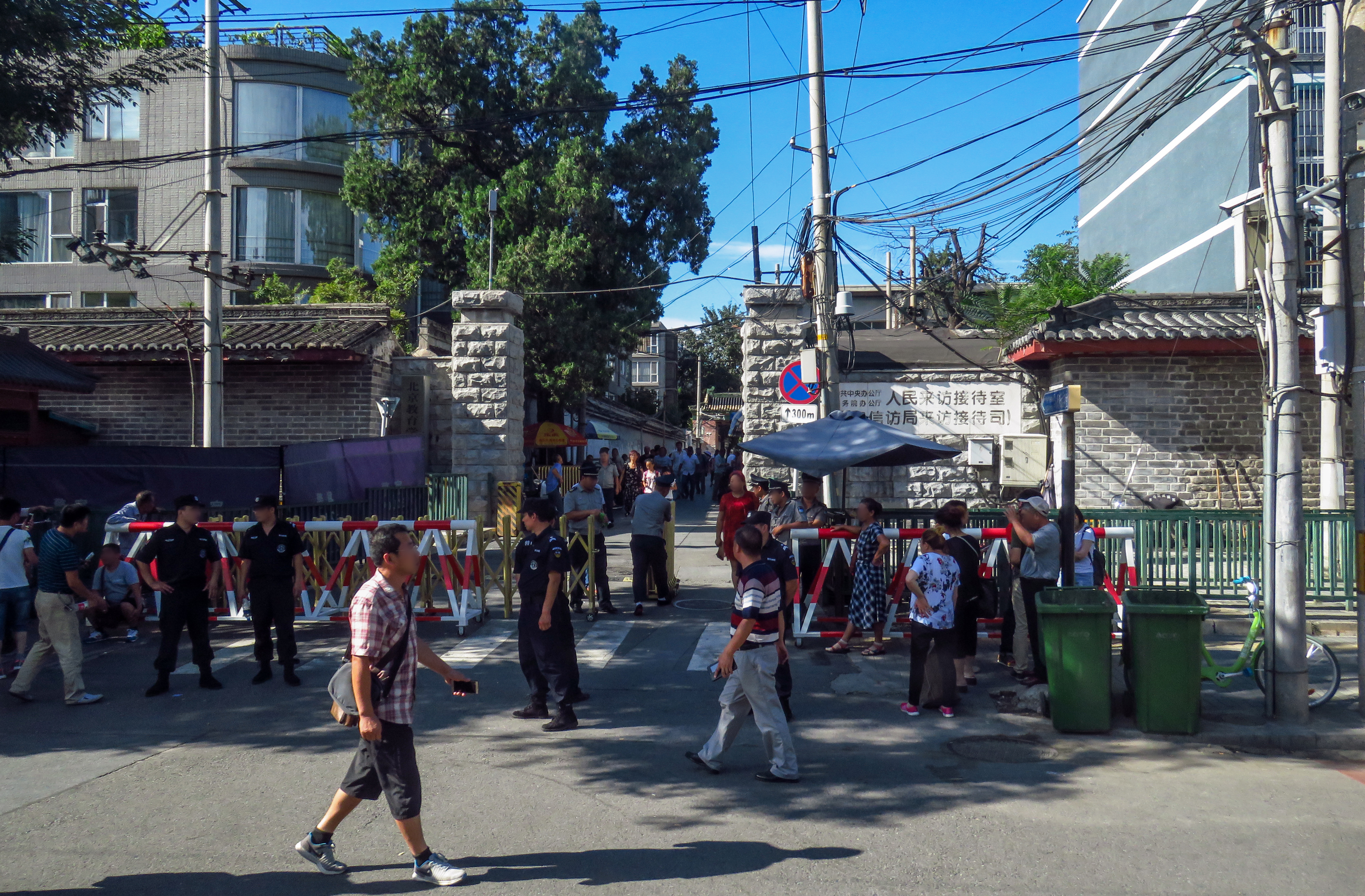 The sign said "Reception office for letters and calls of the General Office of the Central Committee of the Communist Party of China and General Office of the State Council"...